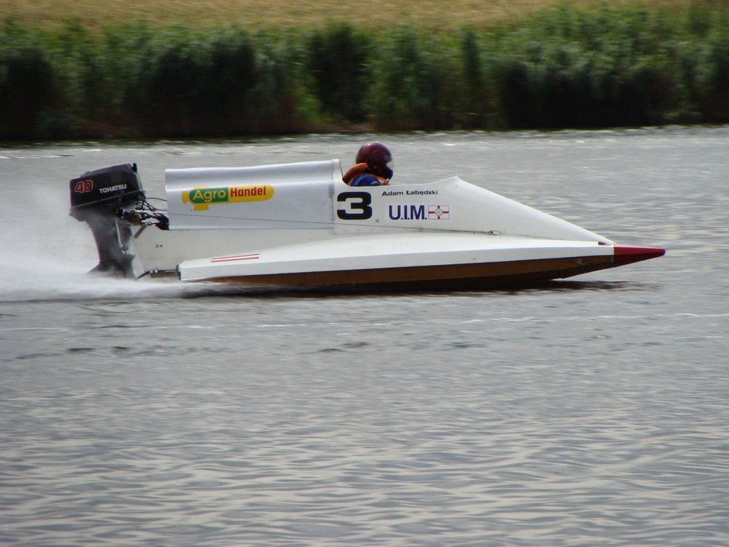 Śrem, the Europe Motorboat Championship 2008, vehicle of Adam Łabędzki.